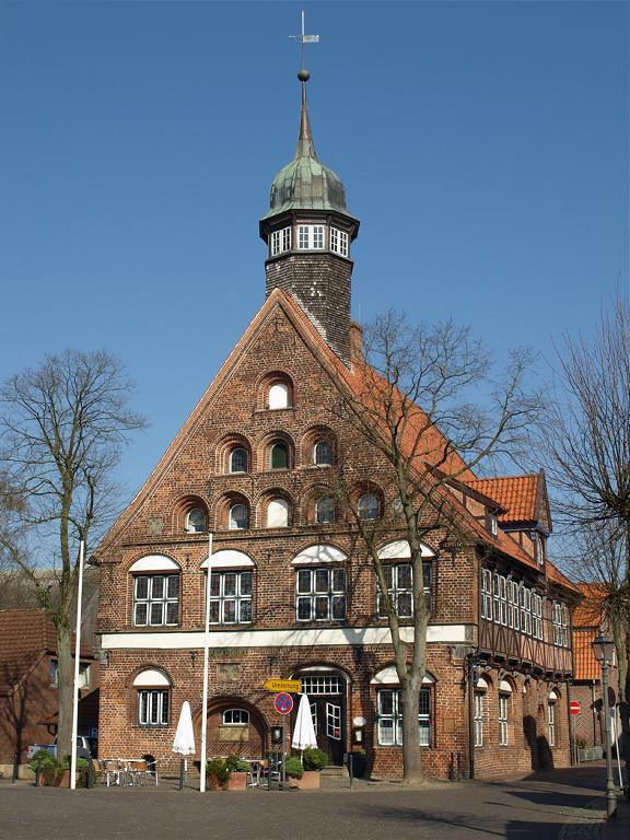 Krempe (Schleswig-Holstein, Germany),town hall , photo 2009